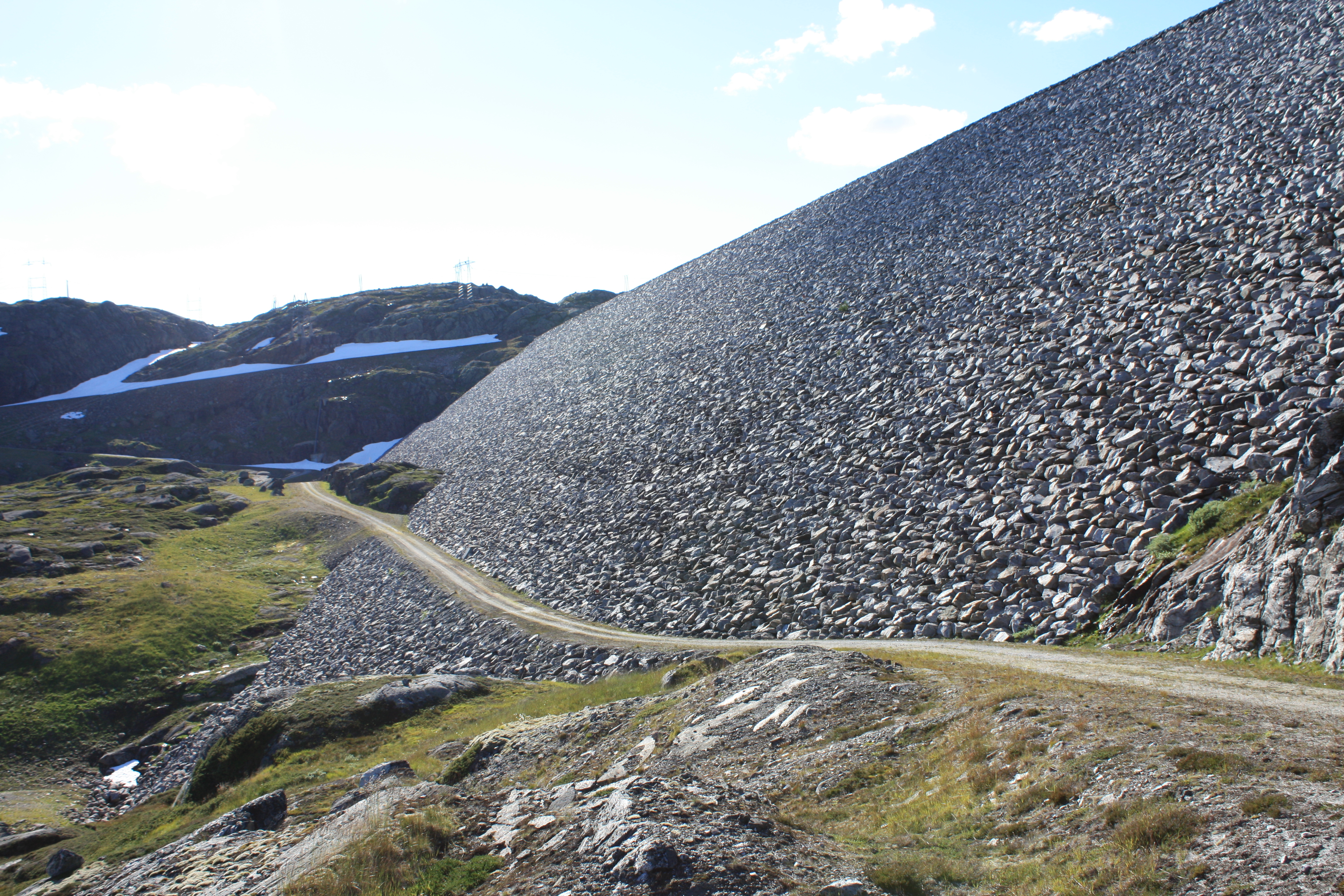 Storvassdammen by Blåsjø. Part of Ulla-Førre